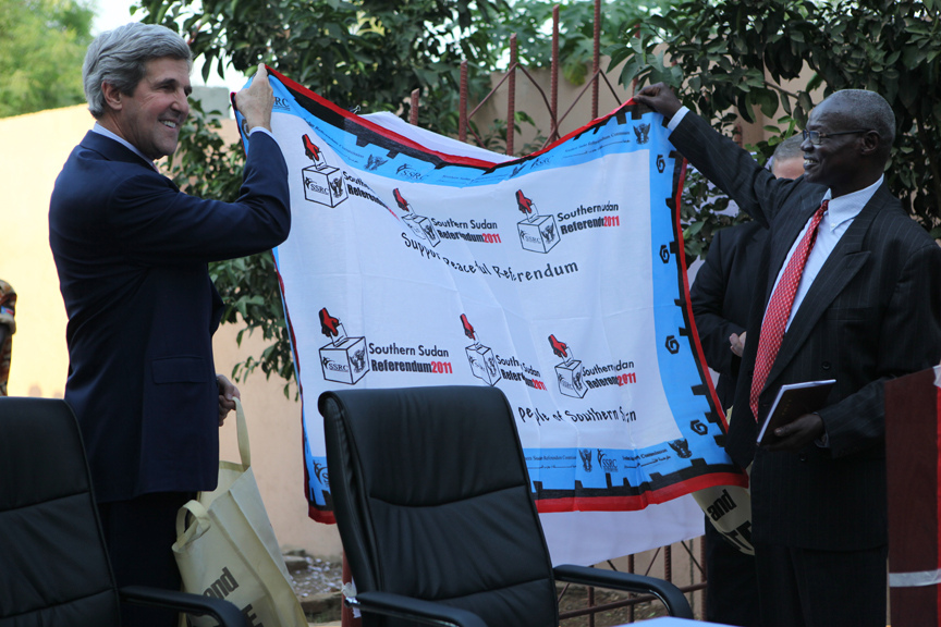 Senator John Kerry is presented with a Southern Sudan Referendum Commission banner at a press conference on January 8, 2011, the day before referendum polling began. U.S. Special Envoy to Sudan Scott Gration also attended the press conference and received a banner. Credit: Jenn Warren